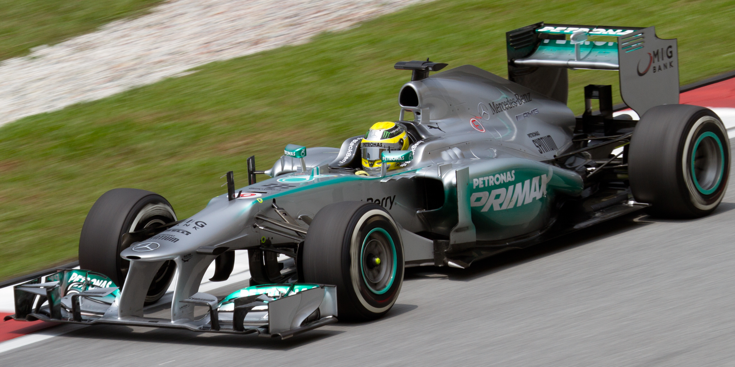 Formula One 2013 Rd.2 Malaysian GP: Nico Rosberg (Mercedes) during the second practice session on Friday.